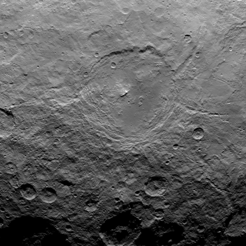 PIA19575: Dawn Survey Orbit Image 7 This image, taken by NASA's Dawn spacecraft, shows dwarf planet Ceres from an altitude of 2,700 miles (4,400 kilometers). The image, with a resolution of 1,400 feet (410 meters) per pixel, was taken on June 9, 2015. Dawn's mission is managed by JPL for NASA's Science Mission Directorate in Washington. Dawn is a project of the directorate's Discovery Program, managed by NASA's Marshall Space Flight Center in Huntsville, Alabama. UCLA is responsible for overall Dawn mission science. Orbital ATK, Inc., in Dulles, Virginia, designed and built the spacecraft. The German Aerospace Center, the Max Planck Institute for Solar System Research, the Italian Space Agency and the Italian National Astrophysical Institute are international partners on the mission team. For a complete list of acknowledgments, For more information about the Dawn mission, visit